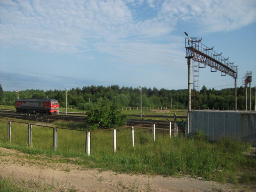 Pechory railway station border